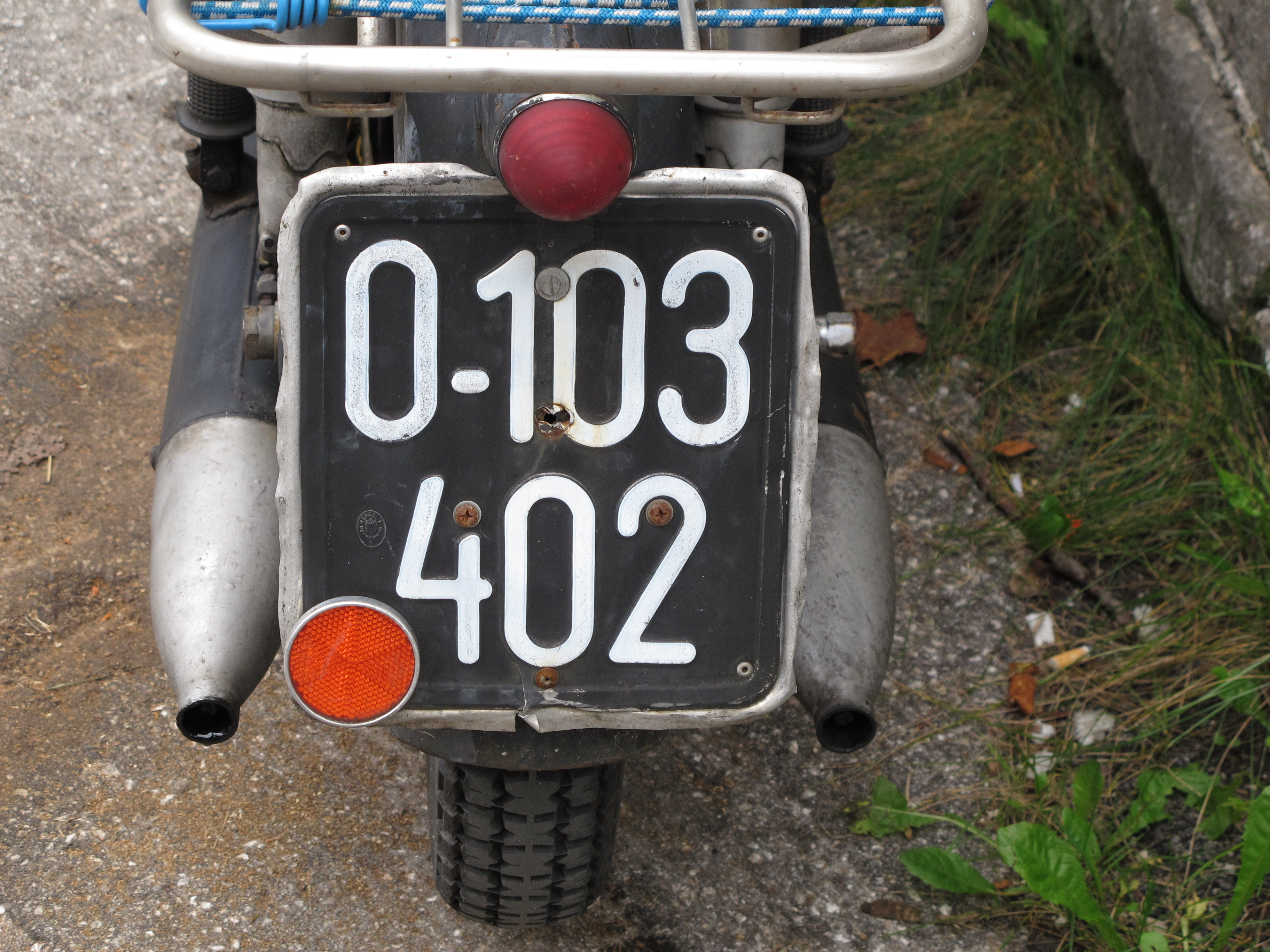 License Plates Austria Old